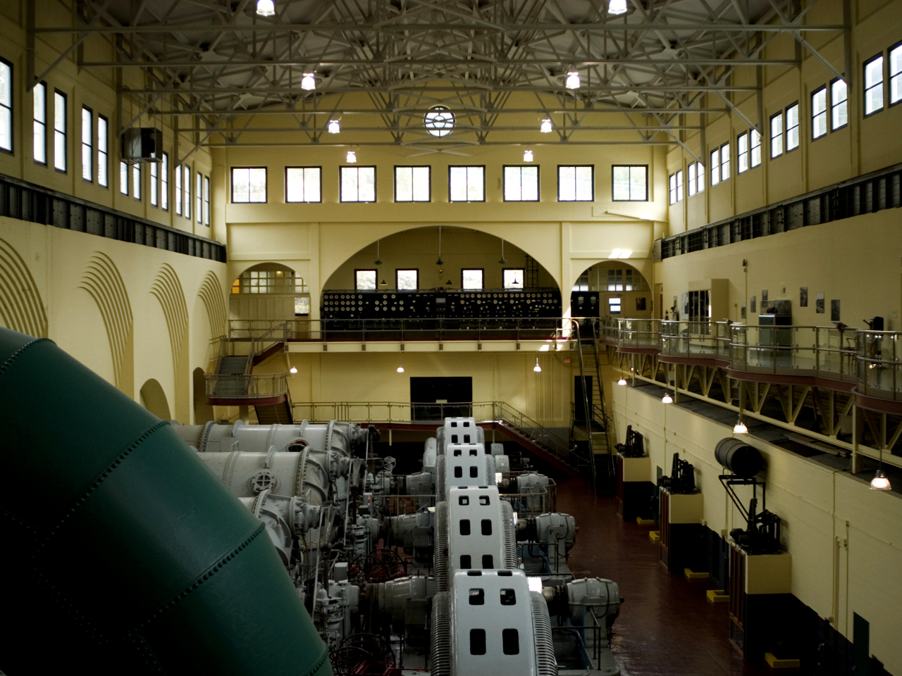 The Stave Falls former powerhouse. The hydroelectric generating station was commissioned in 1911, in British Columbia, Canada. This powerhouse was replaced by a new one in 2000, and was transformed as an exhibition.[1]